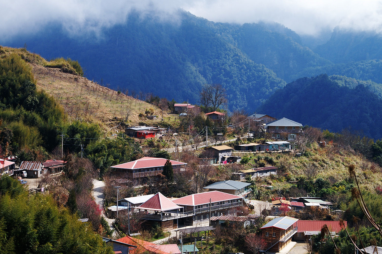 Smangus, Hsinchu, Taiwan 台灣新竹尖石鄉司馬庫斯部落